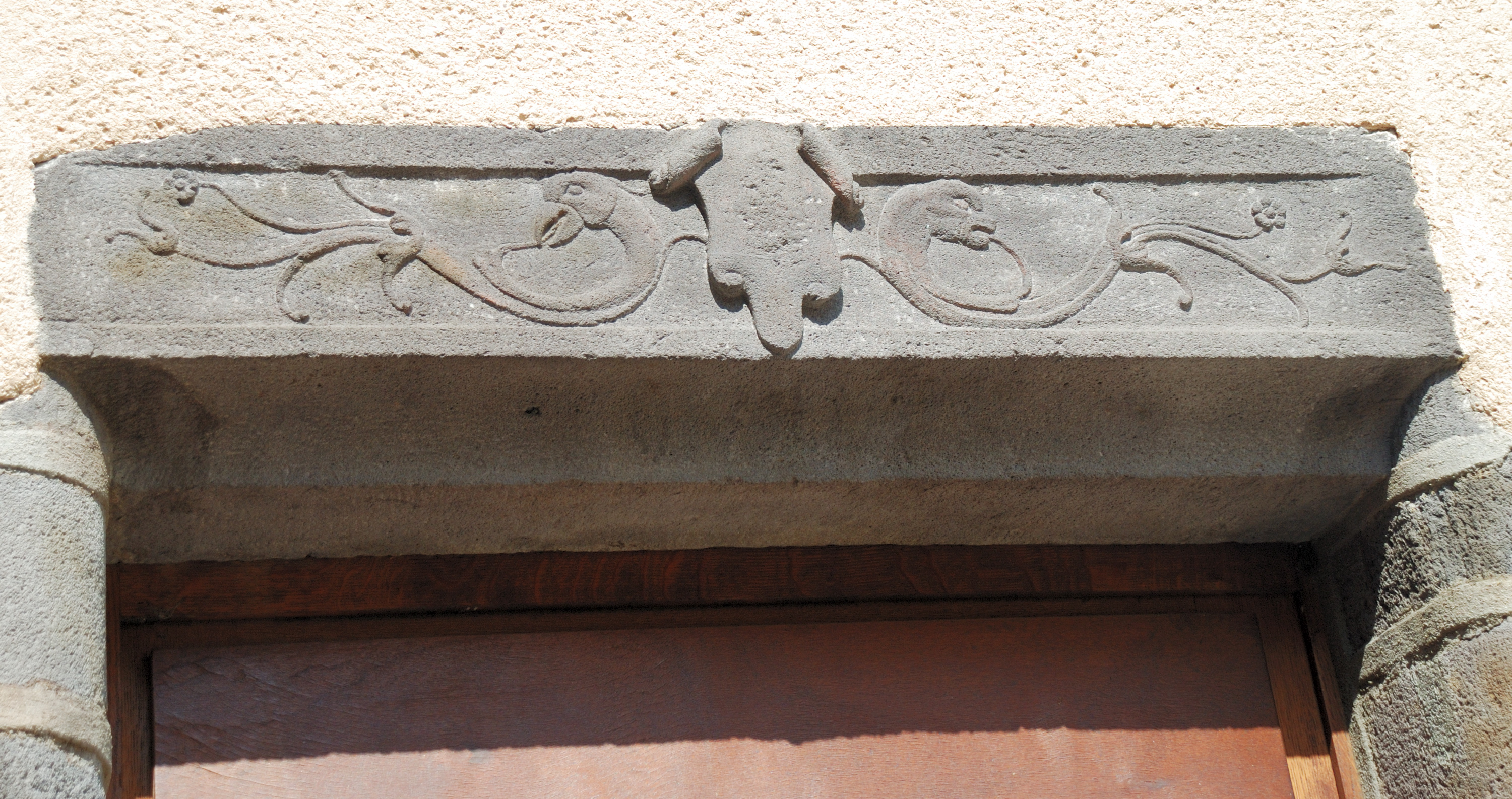 Montferrand area (Clermont-Ferrand, Puy-de-Dôme, France : door lintel with two dolphins).